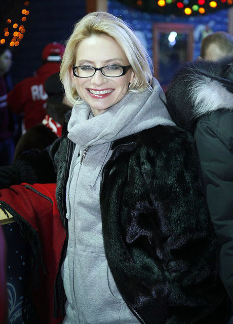 Evelina Khromchenko, L'Officiel main chief.